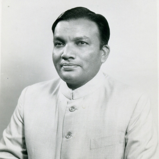 Rajanikat Arole